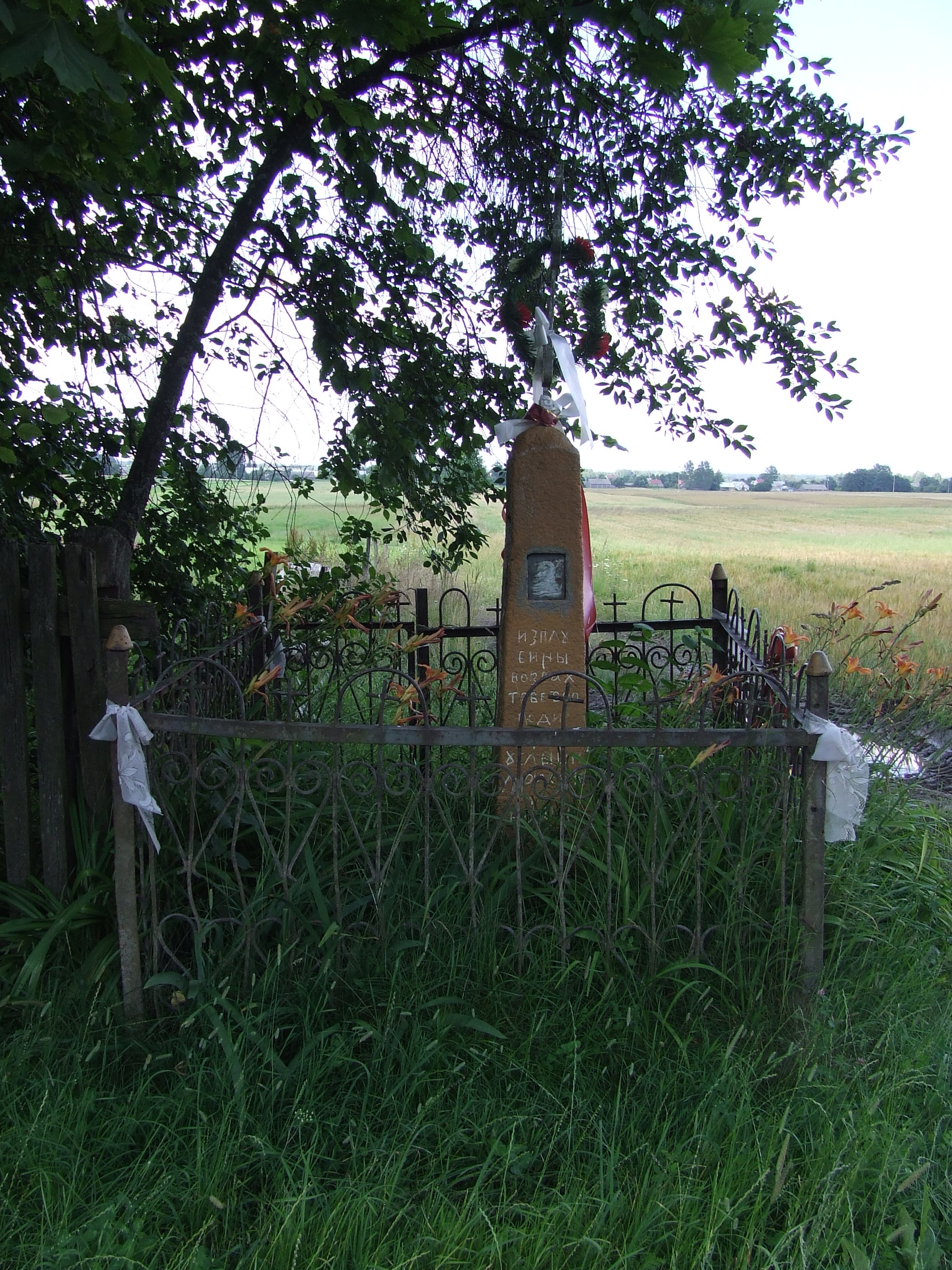 This photo from Podlaskie Voievodeship was taken during Polish Wikiexpedition 2009 set up by Wikimedia Polska Association. The making of this document was supported by Wikimedia Polska.